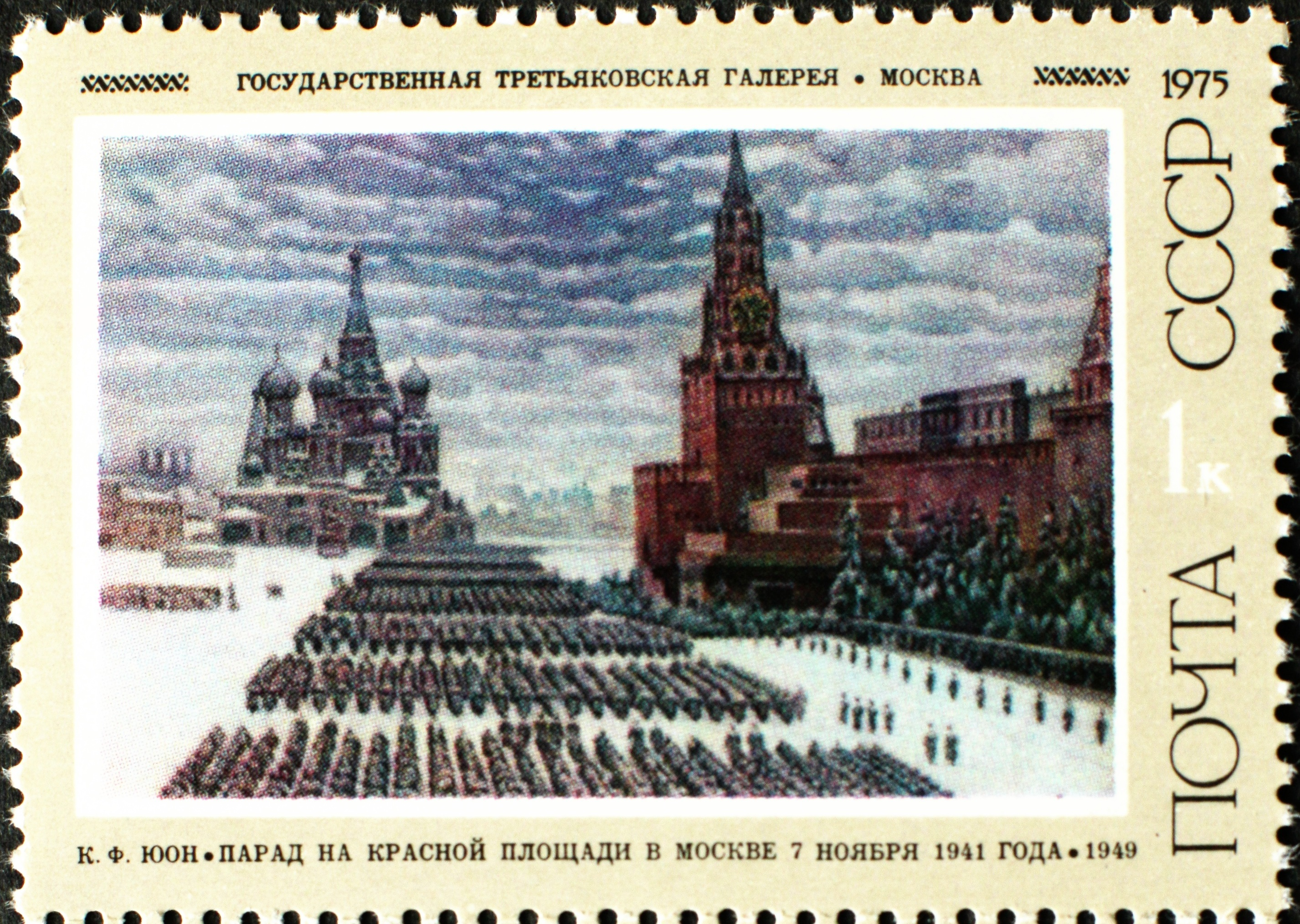 A USSR stamp of 1975. Soviet paintings. K. Yuon. "A parade in the Red Square in Moscow on November 7, 1941." Lenin's Mausoleum. CFA #4486.